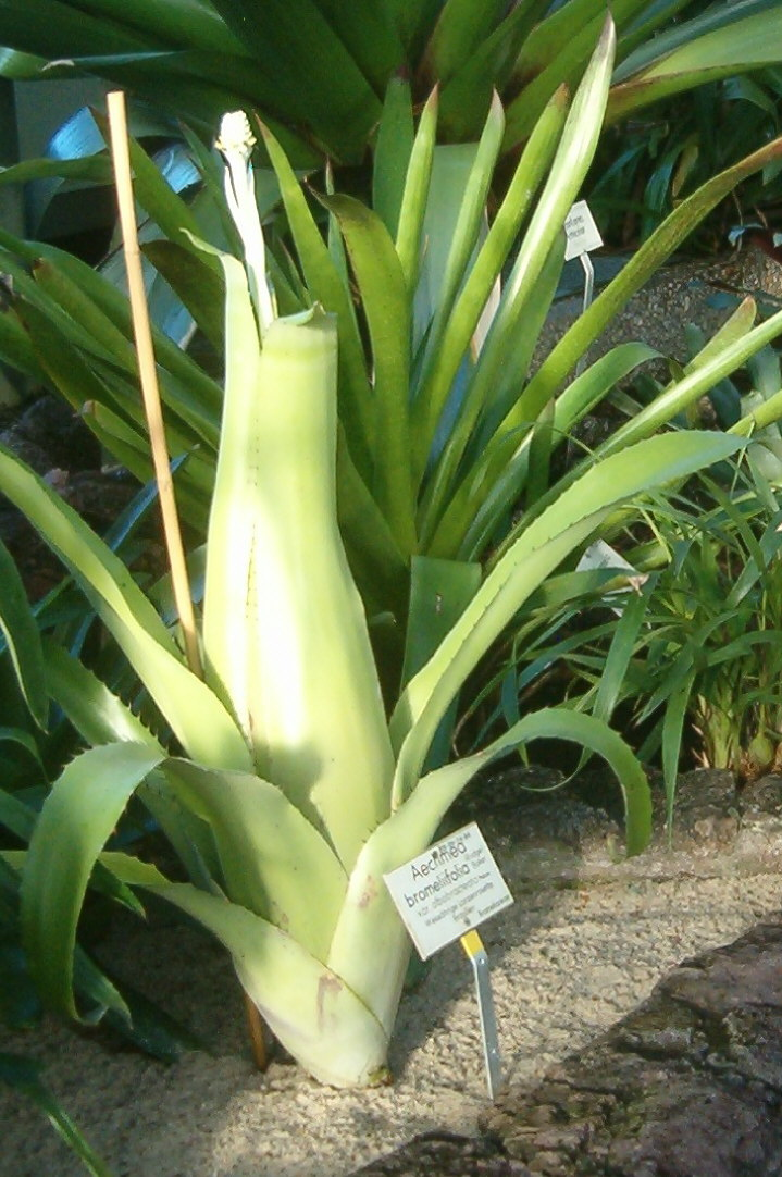 At Botanical Gardens Berlin-Dahlem Name Aechmea bromeliifolia var. albobracteata